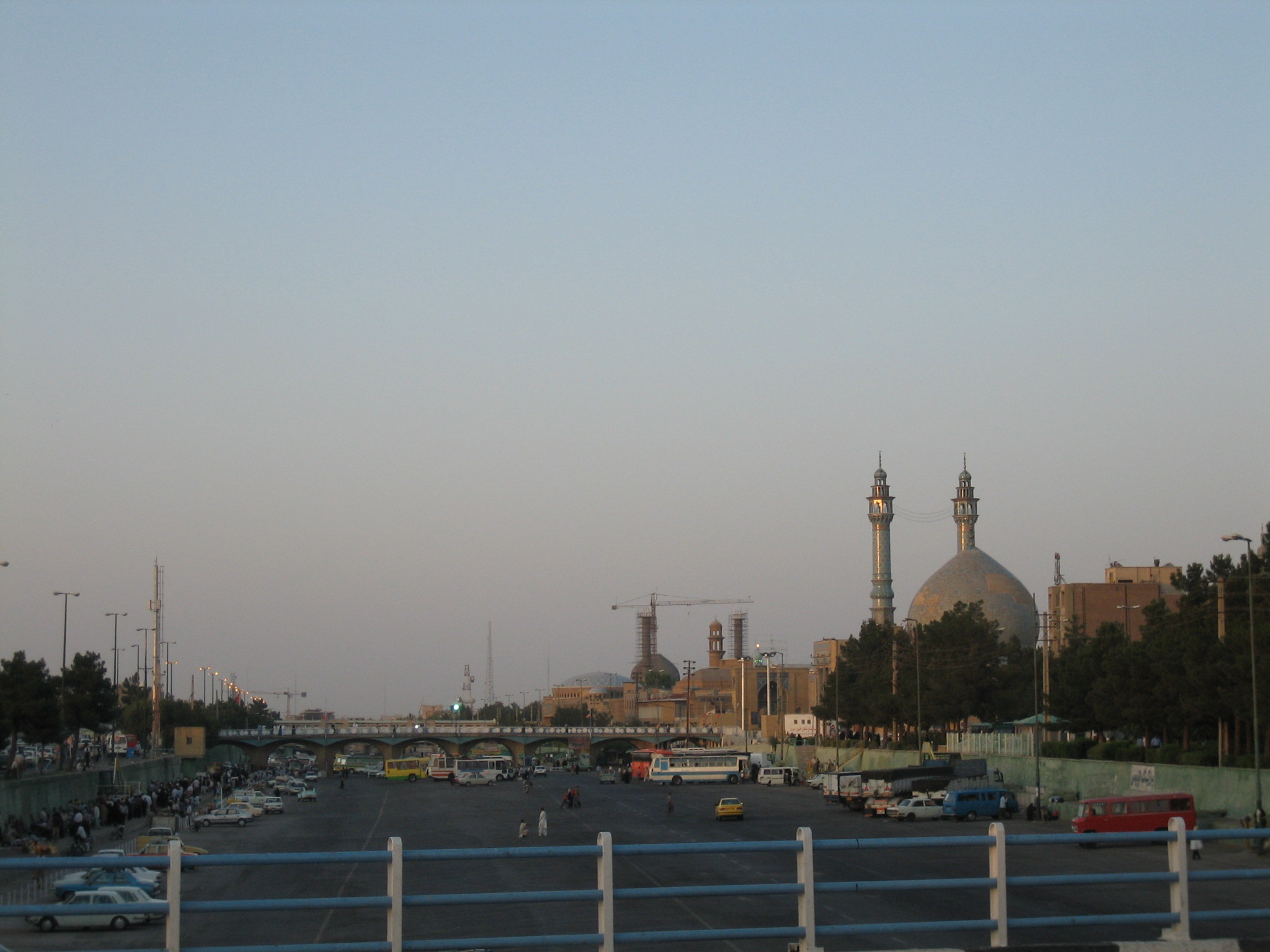 Taken at Qum, Iran.